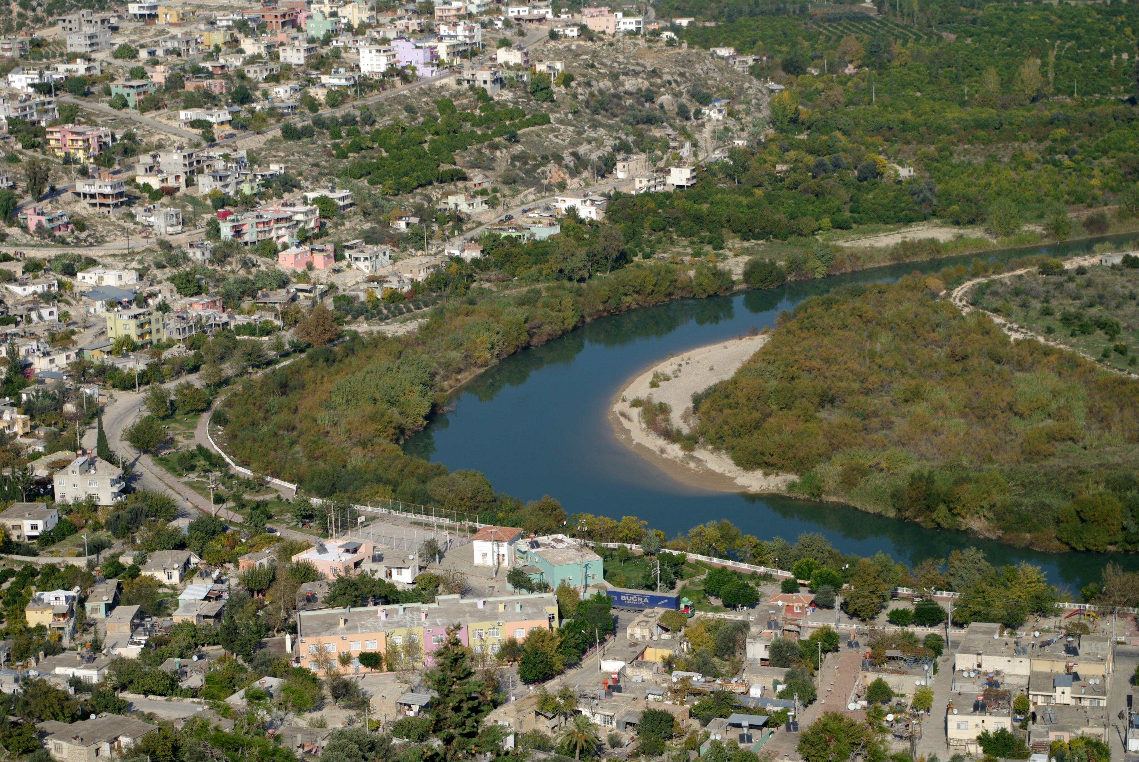 A partial view of Silifke town and Göksu River passing the town.